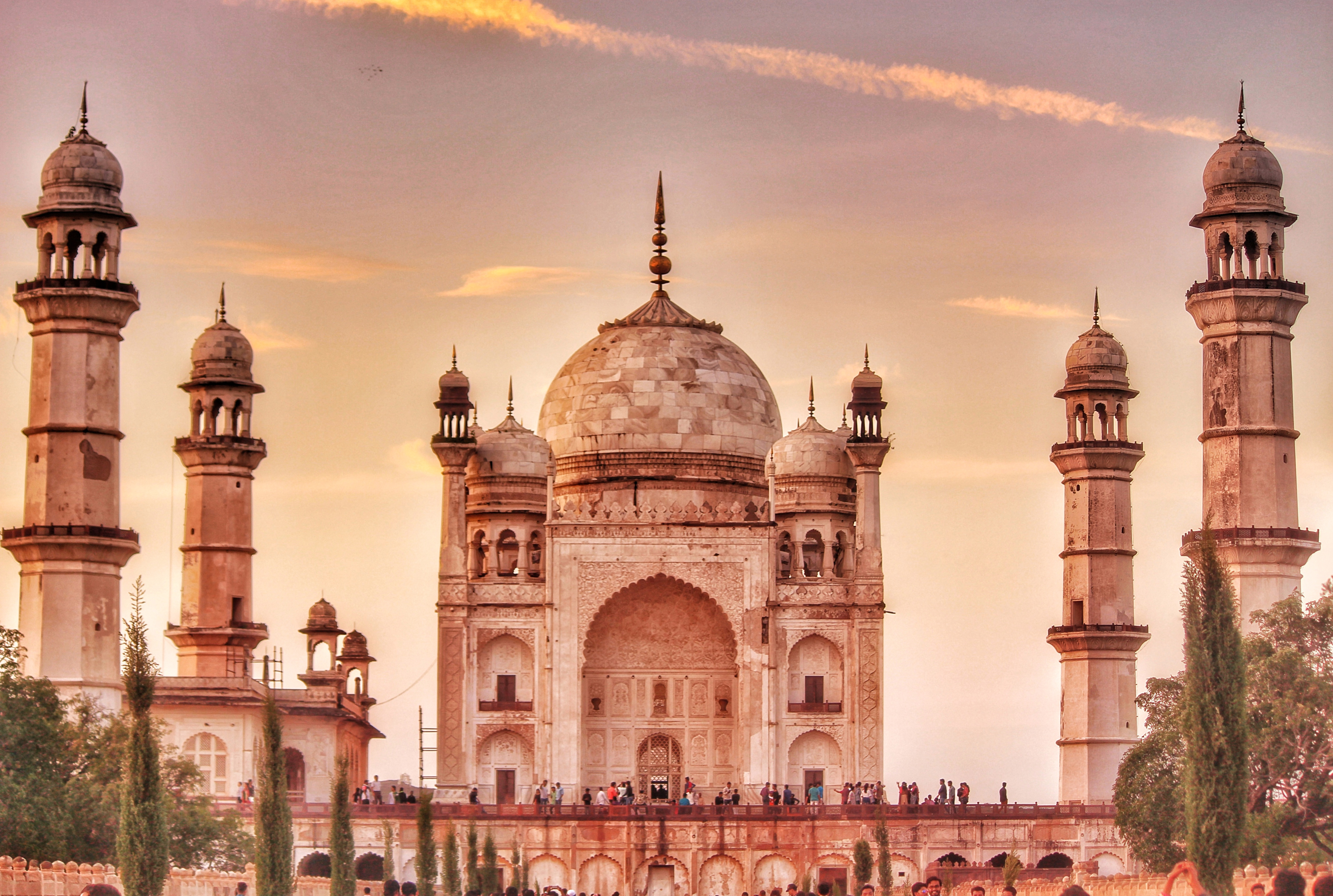 Taj Mahal, built by Shah Jahan in the loving memory of his wife, is renowned all over the world, but very few know about the beautiful mausoleum built by his grandson, Azam Shah in the memory of his mother, Dilras Banu Begum, the wife of Mughal Emperor Aurangzeb! Bibi-ka-Maqbara also known as the “Taj of deccan” or Dakkhani Taj is the prime architectural monument located in the city of Aurangabad, Maharashtra. The inscription at the gates states that the architect was Ata-ullah, who was the son of Ustad Ahmad Lahauri who is said to be the principal designer of the Taj Mahal. Another interesting fact about it is that just like Mumtaz mahal, Dilras Banu Begam also died in childbirth. Although built on a smaller scale than Tajmahal, due to the financial restrictions imposed by Aurangzeb, it is an architectural marvel indeed. The mughal gardens, living water management system, pavements ornamented with kiosks and floral motifs rank the maqbara among the best of Mughal buildings of the Deccan!